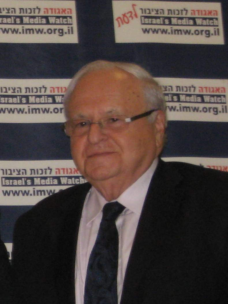 Meir Rosenne (2013), Israeli lawyer and diplomat